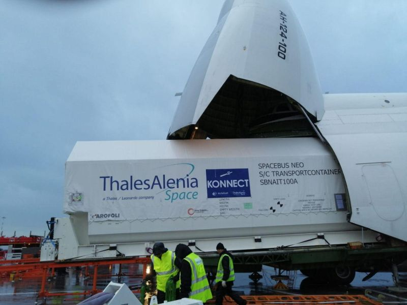 Bording Antonov 124, at Nice Côte d'Azur airport of the container with Konnect, satellite, the first Spacebus Neo, to be launch onboard Ariane 5 from the Guyana Space Center